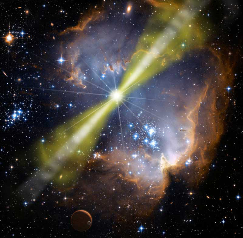 Artist's illustration of one model of the bright gamma-ray burst GRB 080319B. The explosion is highly beamed into two bipolar jets, with a narrow inner jet surrounded by a wider outer jet.